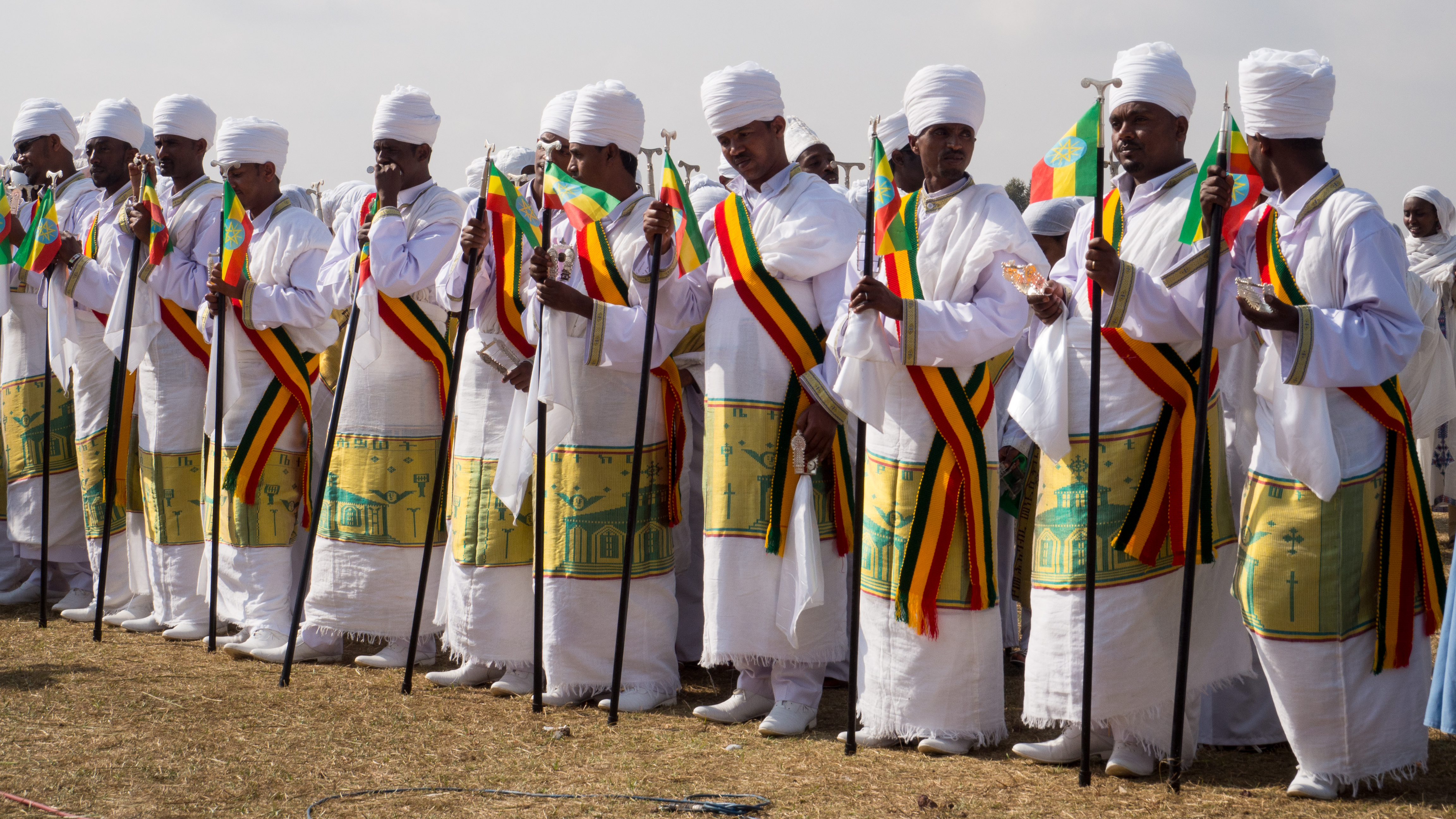 Orthodox priests before dancing for 2015 Timkat ceremony, in Jan Meda, Addis Ababa, Ethiopia